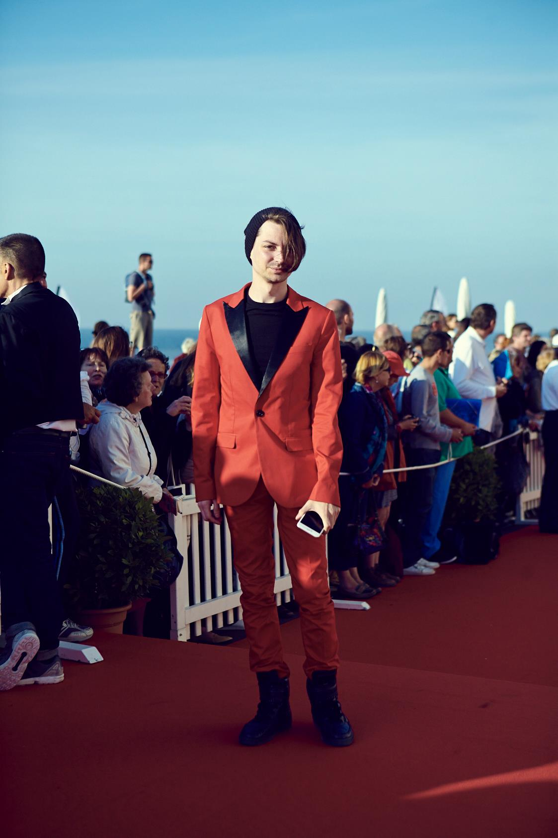 Benjamin Lemaire attends to Cabourg Festival 2016